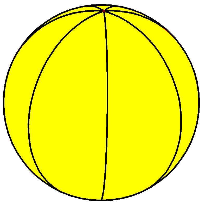 Spherical polyhedron